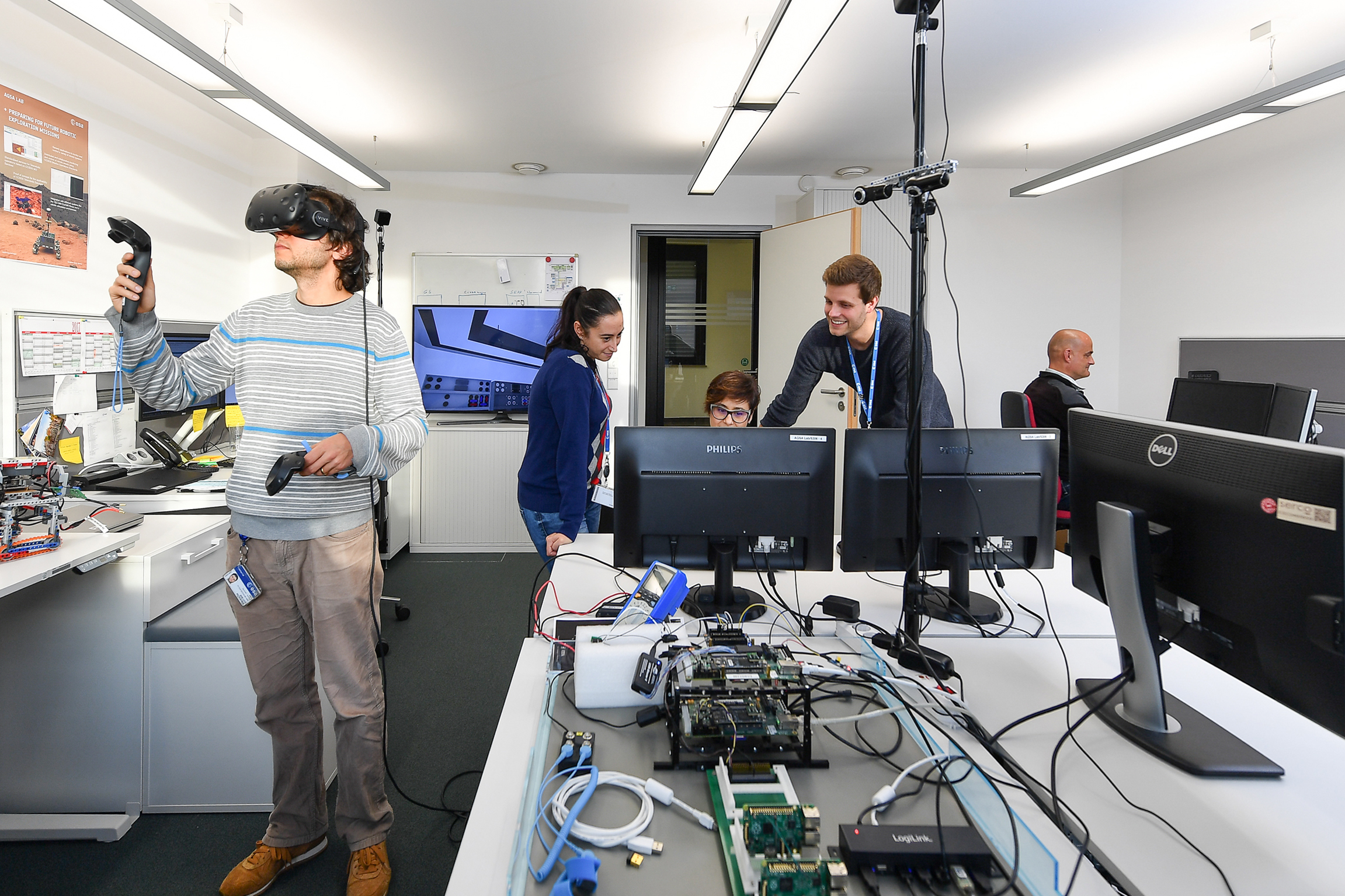 Advanced Ground Software Apps Lab (AGSA Lab) at ESA's mission operations centre, ESOC in Darmstadt